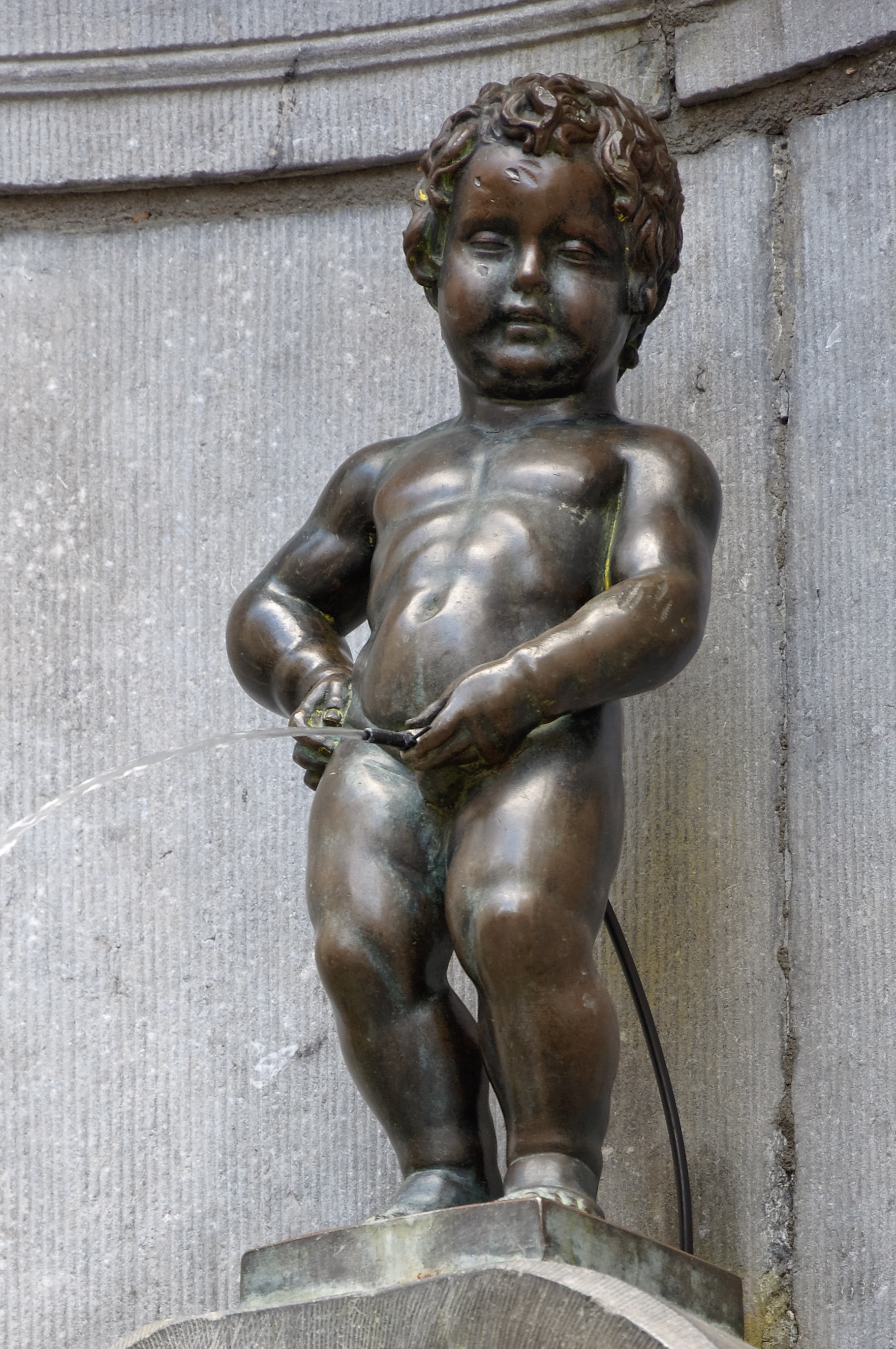 Manneken Pis in Brussels, Belgium. The original bronze statue was created by Jerome Duquesnoy, 1619. The one exhibited at the junction of Rue de l'Étuve/Stoofstraat and Rue du Chêne/Eikstraat is a replica from 1965.